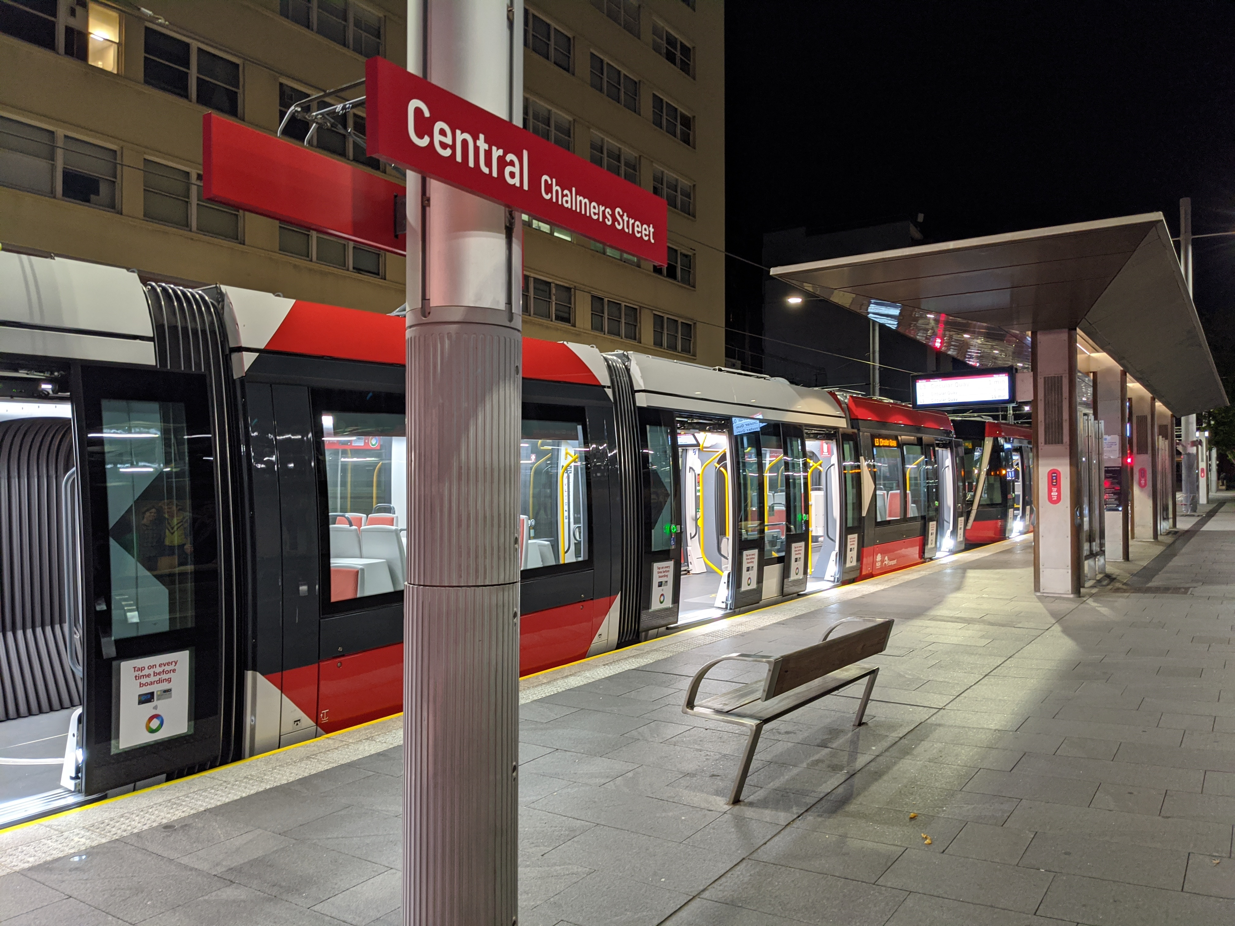 Central Chalmers Street Light Rail Stop